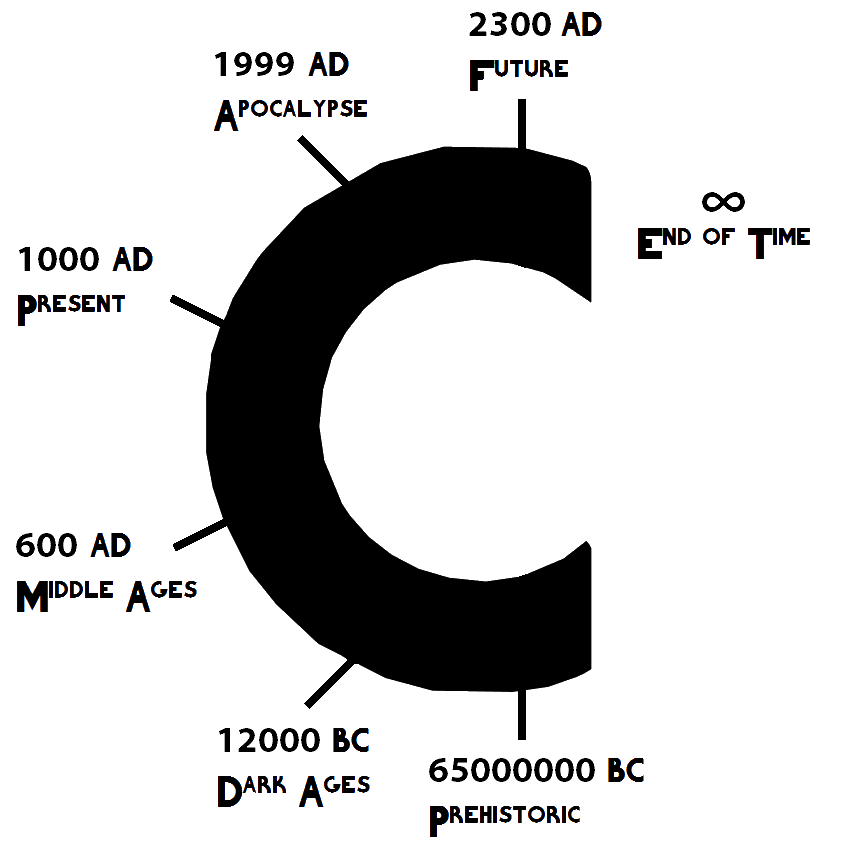 The time gauge used to travel between the different time periods of the game. This appears after the player finds the time-traveling vehicle Epoch.